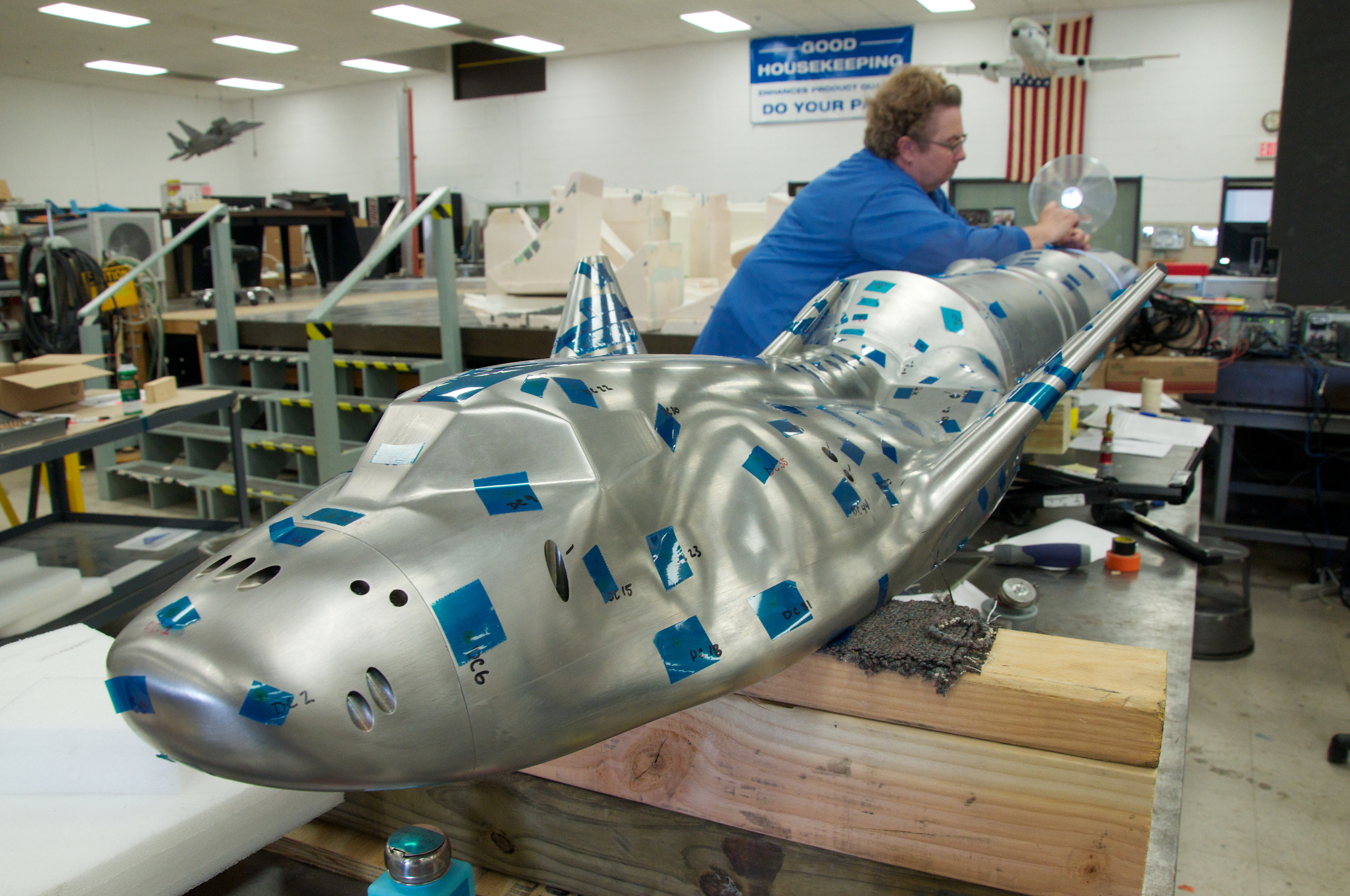 The Dream Chaser model with its Atlas V launch vehicle is undergoing final preparations at the Aerospace Composite Model Development Section's workshop for buffet tests at the Transonic Dynamics Tunnel at NASA Langley. The scale model is being tested as part of NASA's Commercial Crew Development program to regain the American capability to launch astronauts safely to the International Space Station. The lifting body reusable spacecraft would carry as many as seven astronauts to the space station. Sierra Nevada Space Systems is developing the craft under a Space Act Agreement with NASA. With the help of hundreds of pressure transducers, engineers from Sierra Nevada Corporation, the United Launch Alliance and NASA Langley will look at the pressure fluctuations the model and launch vehicle stack experience during the critical ascent to orbit, especially at transonic speeds. Shock-waves form on launch vehicles as they approach the speed of sound and may result in regions of highly unsteady flow. Within these regions of the Dream Chaser and launch vehicle, the resulting buffet forces and high frequency acoustic noise must be clearly understood as part of the vehicle design process. Transonic wind-tunnel testing of large, highly instrumented scale models is the only method of determining the buffet environments of launch vehicles with complex shapes.